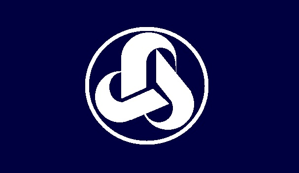 Flag of Asahi Mie